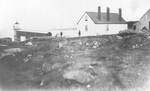 Marshall Point Light Station in Port Clyde, Maine, USA before 1895